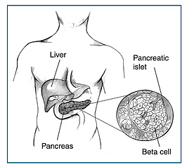 Insulin is produced in beta cells within Islets of Langerhans in the pancreas.